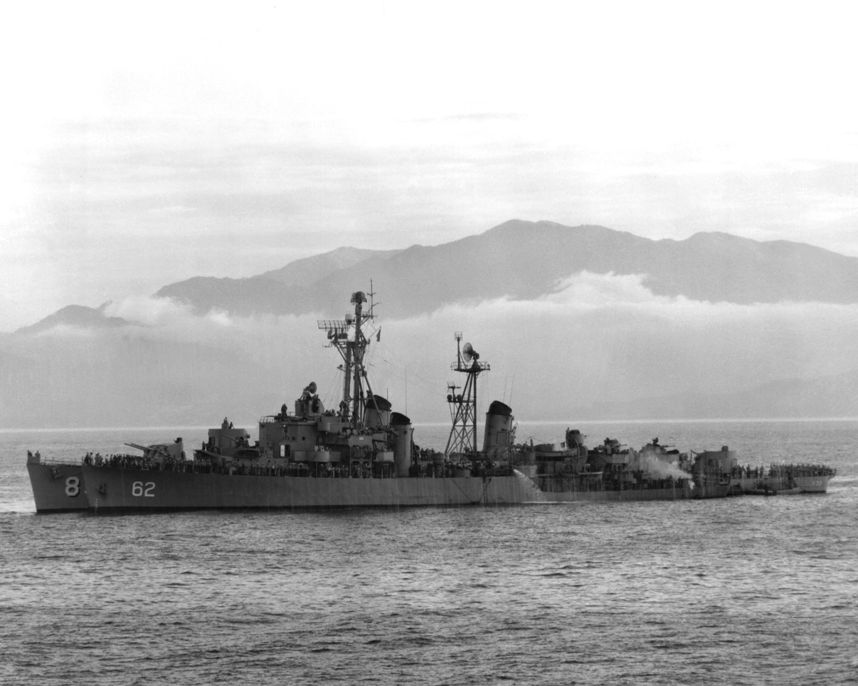 The South Korean frigate Apnok (56) alongside the U.S. Gearing-class destroyer USS Hanson (DD-832) for temporary repairs, at Wonsan harbour, Korea, on 26 May 1951, after being hit three times by North Korean shore batteries. The Hanson made temporary repairs to the hull, and furnished electrical power. The Apnok was the former U.S. Tacoma-class frigate USS Rockford (PF-48), which had been transferred to the South Korean navy in October 1950.